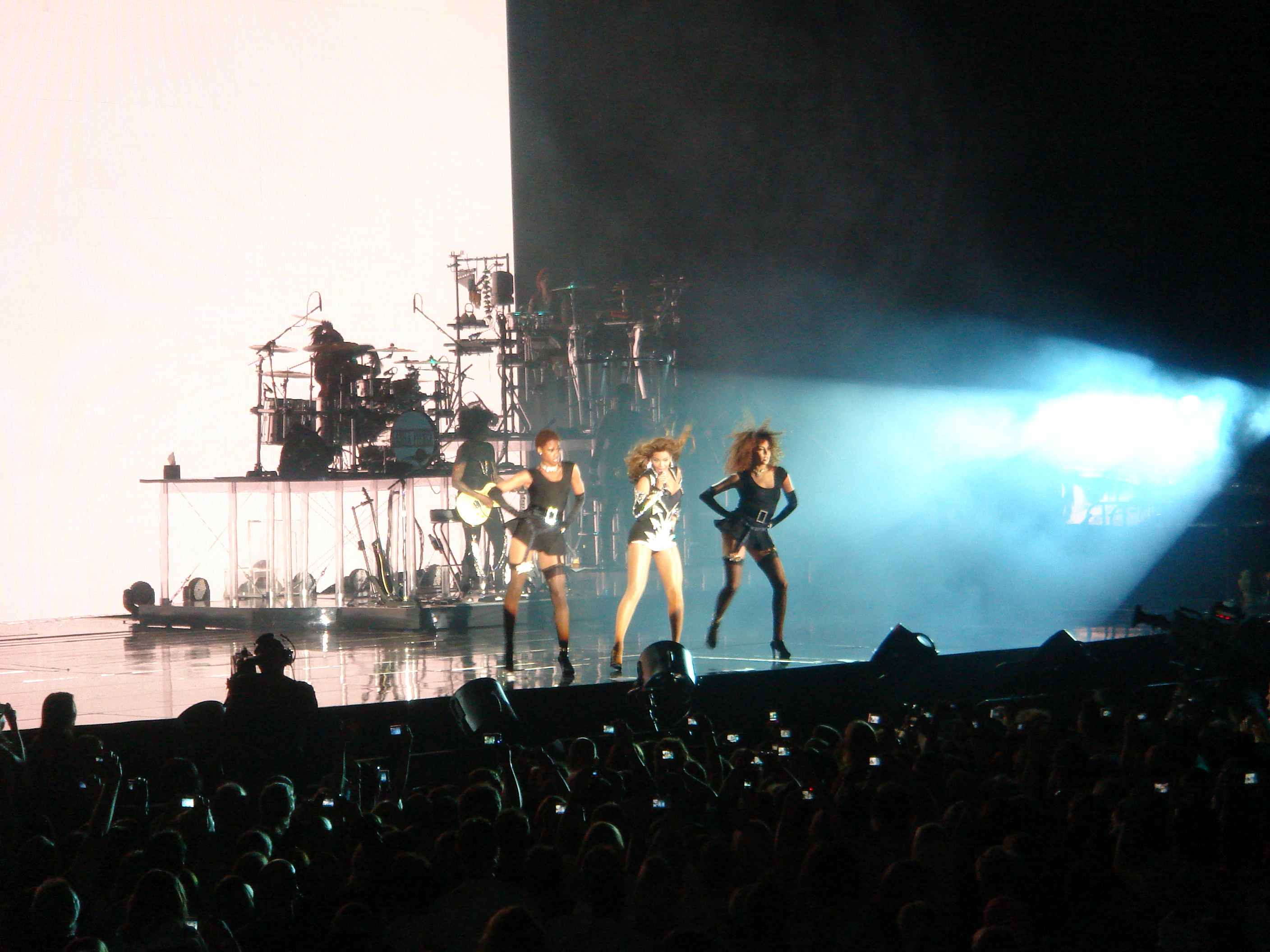 Beyoncé Knowles performing "Single Ladies (Put a Ring on It)" during a concert on the I Am… Tour. Berlin, May 8, 2009